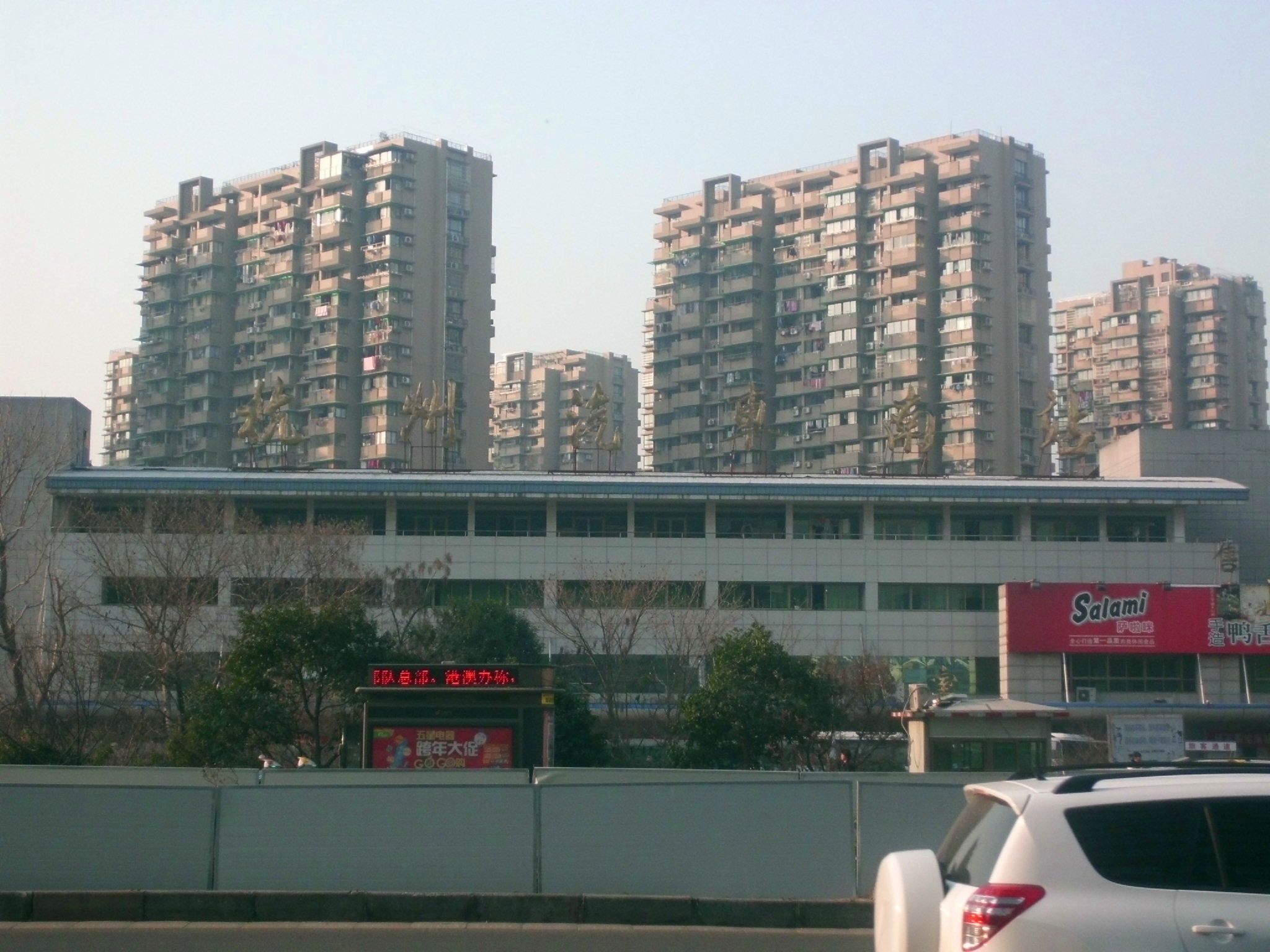 Hangzhou Southern Bus Station